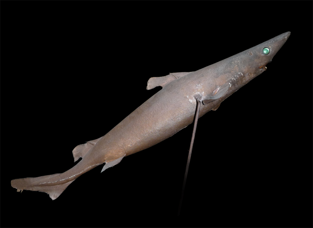 Centroscymnus crepidater stuffed